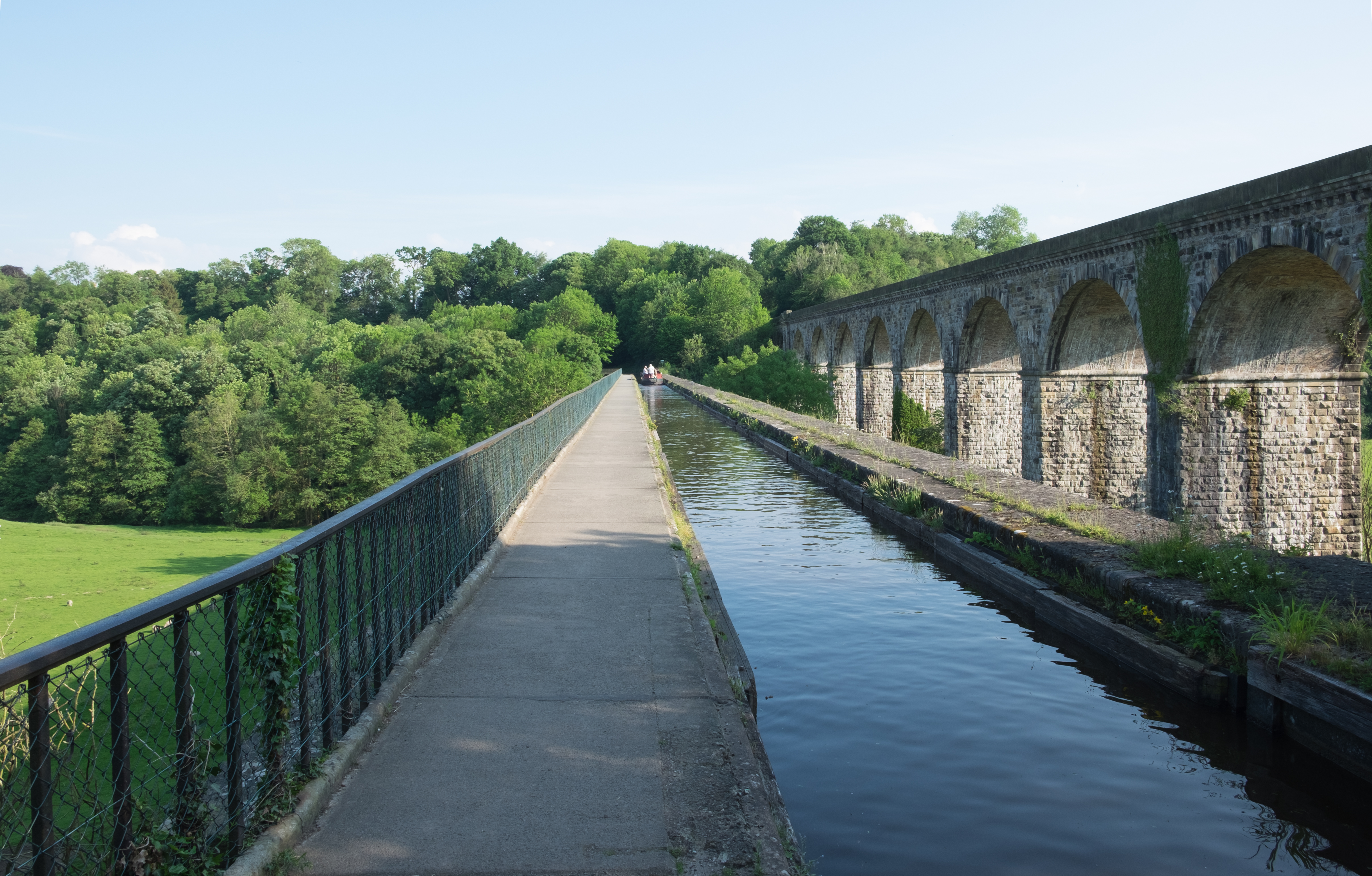 Looking across the Chirk Aqueduct from the north. To the right is the later railway viaduct. This aqueduct carries the Llangollen Canal across the Ceiriog Valley, which follows the border between England and Wales, and is a grade II* listed building in both countries.